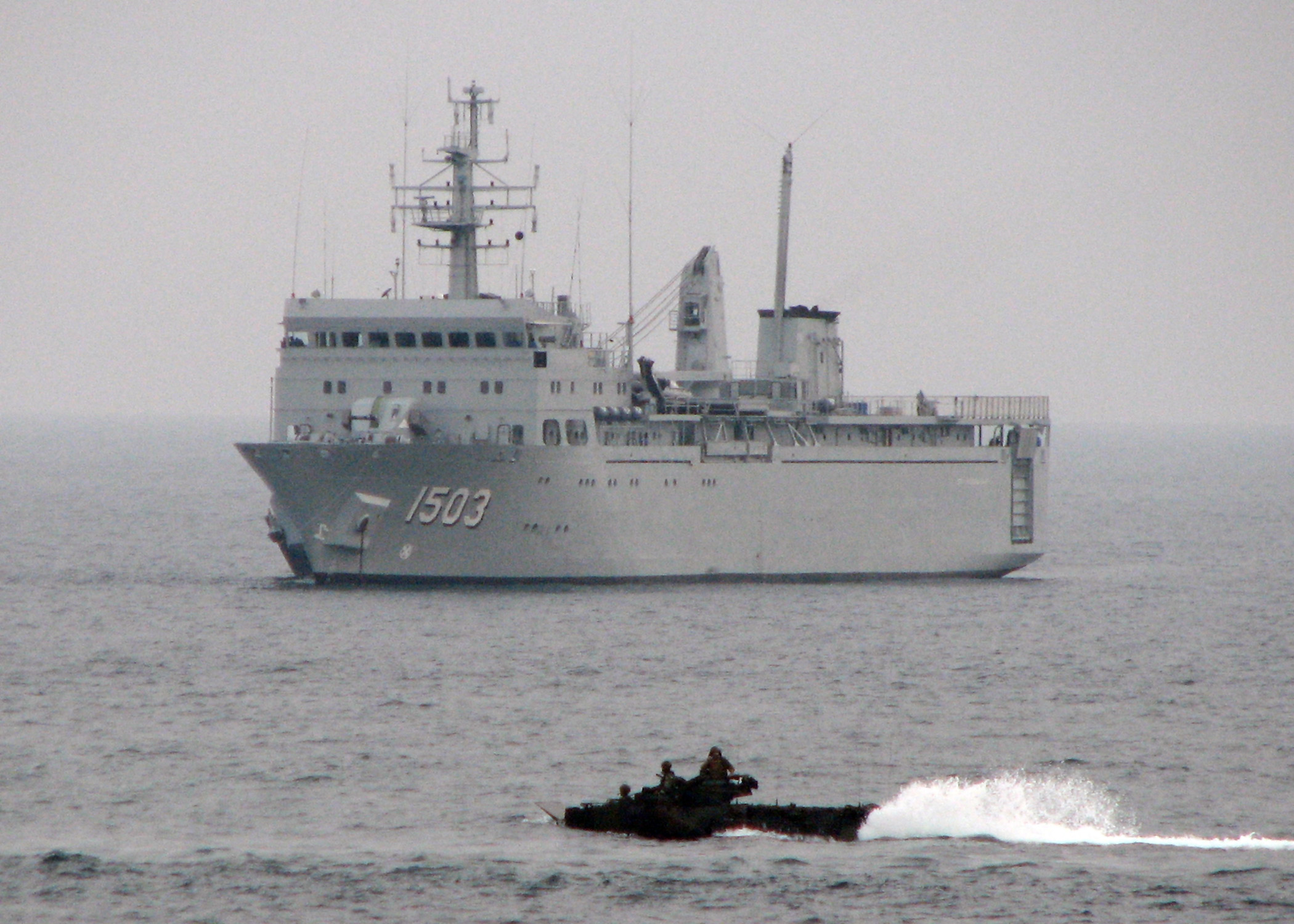 090629-N-7058E-049 SOUTH CHINA SEA (June 29, 2009) An amphibious assault vehicle carrying U.S. Marines and Malaysian Army soldiers from the 9th Royal Malay Regiment passes the Royal Malaysian Navy multi-role support ship KD Sri Indera Sakti during a Cooperation Afloat Readiness and Training (CARAT) Malaysia 2009 joint amphibious landing exercise.